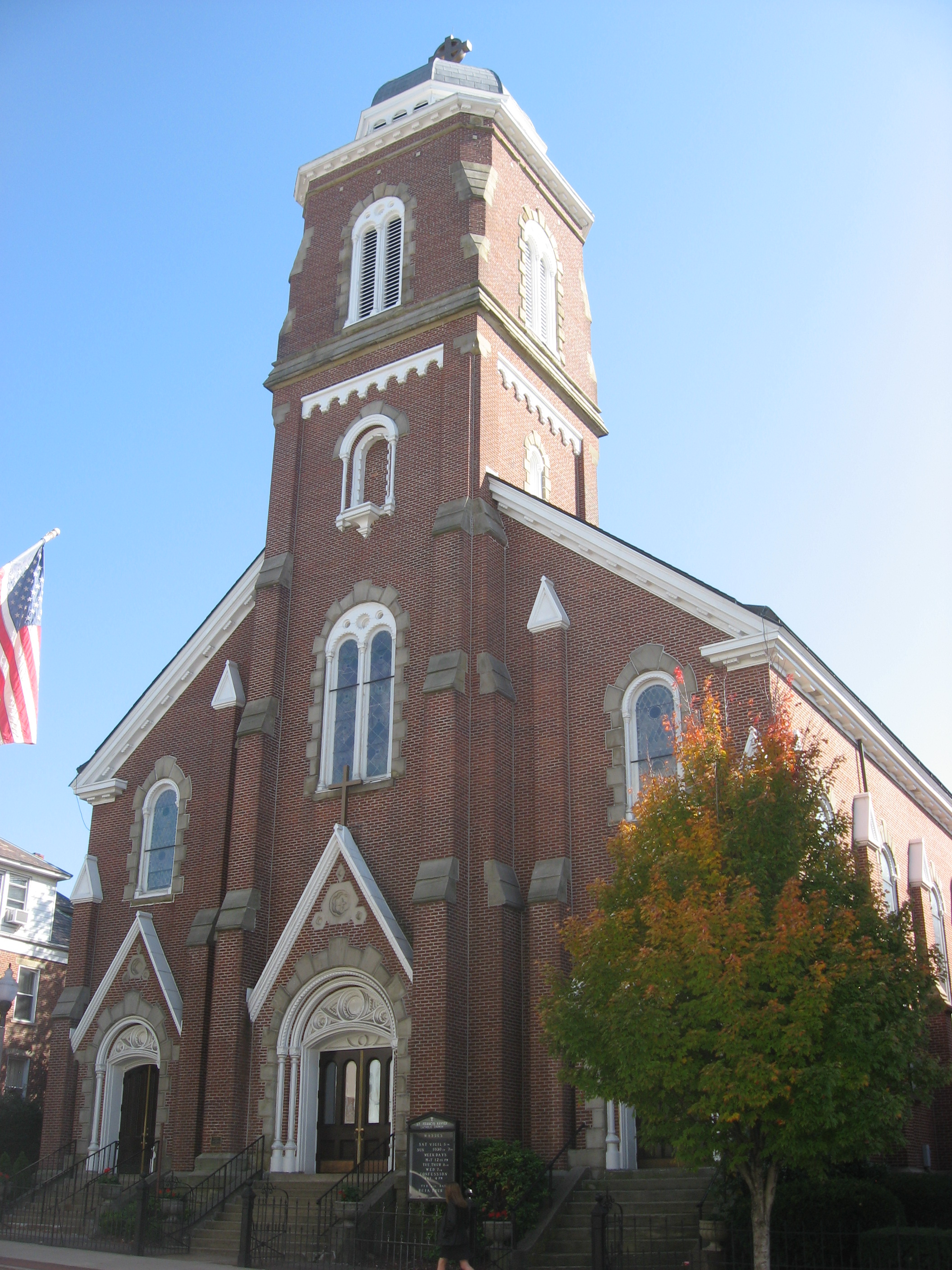 Front of St. Francis Xavier Church, located at 532 Market Street in Parkersburg, West Virginia, United States. Built in 1869, it is listed on the National Register of Historic Places.